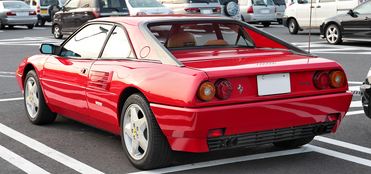 Ferrari Mondial t